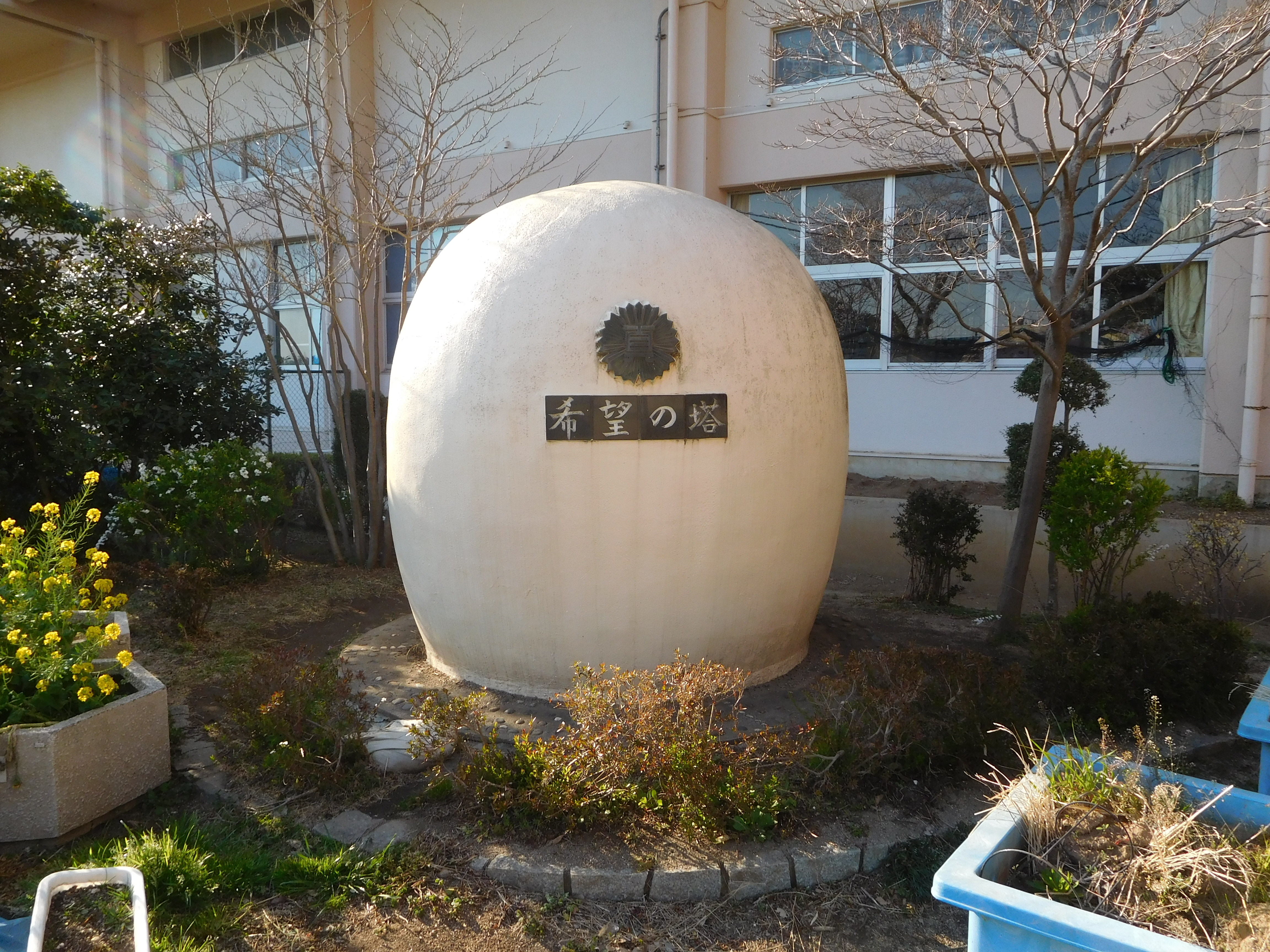 This is Tower of Hope, a time capsule in Manabe Elementary School, Ibaraki, Tsuchiura, Japan.